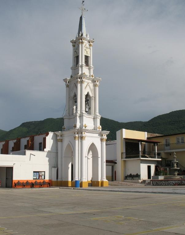 San Luis Soyatlán's Catholic Temple.